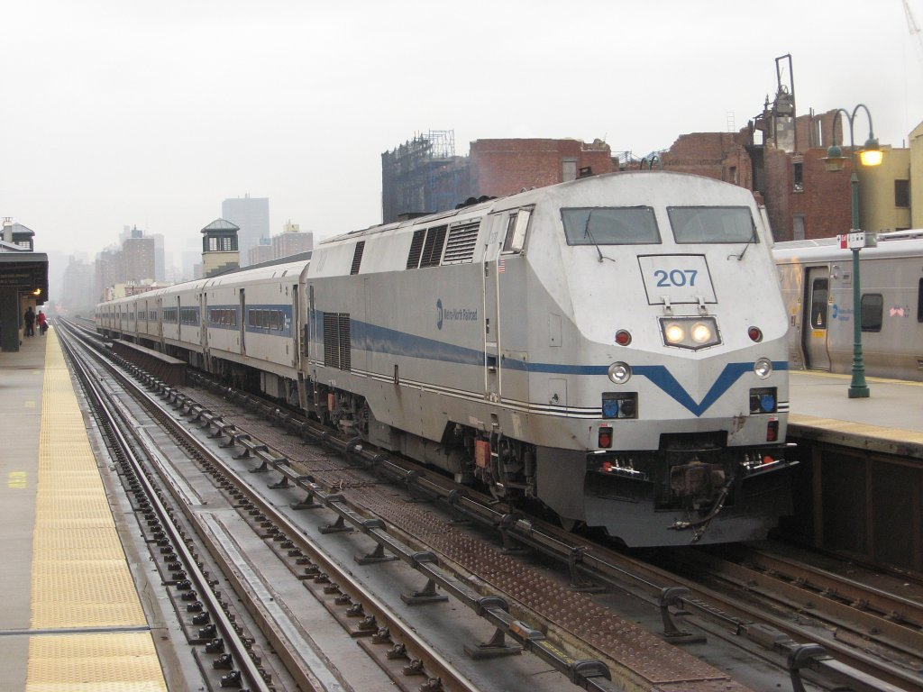 Metro-North P32AC-DM #207 at Harlem-125 Street, pulling Train 831.